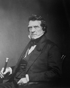 William L. Marcy, circa 1856 From Contents 1 Automatically converted to PNG 1.1 Previous file history 2 Licensing 3 Original upload log Automatically converted to PNG The PNG crusade bot automatically converted this image to the more efficient PNG format. The image was previously uploaded as "Marcy.gif". Previous file history 22:30:08, 26 November 2006 (UTC) . . The Mystery Man (Talk